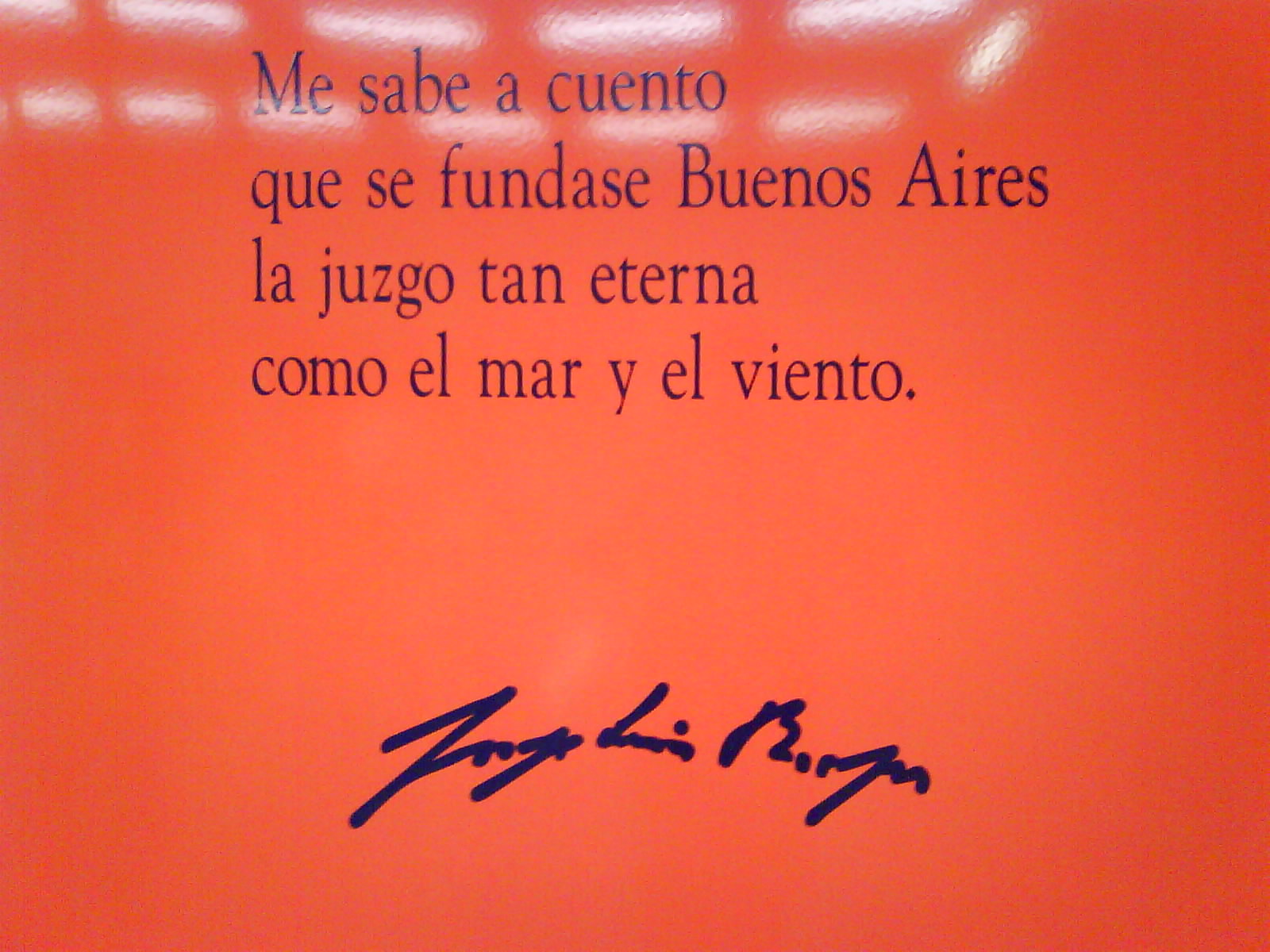 Inaccurate quote by Borges at Buenos Aires Madrid Metro station